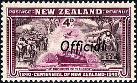 1940 New Zealand postage stamp issued to commemorate New Zealand's centenary, overprinted OFFICIAL for government mail use only.